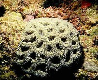 Crop of file in filename